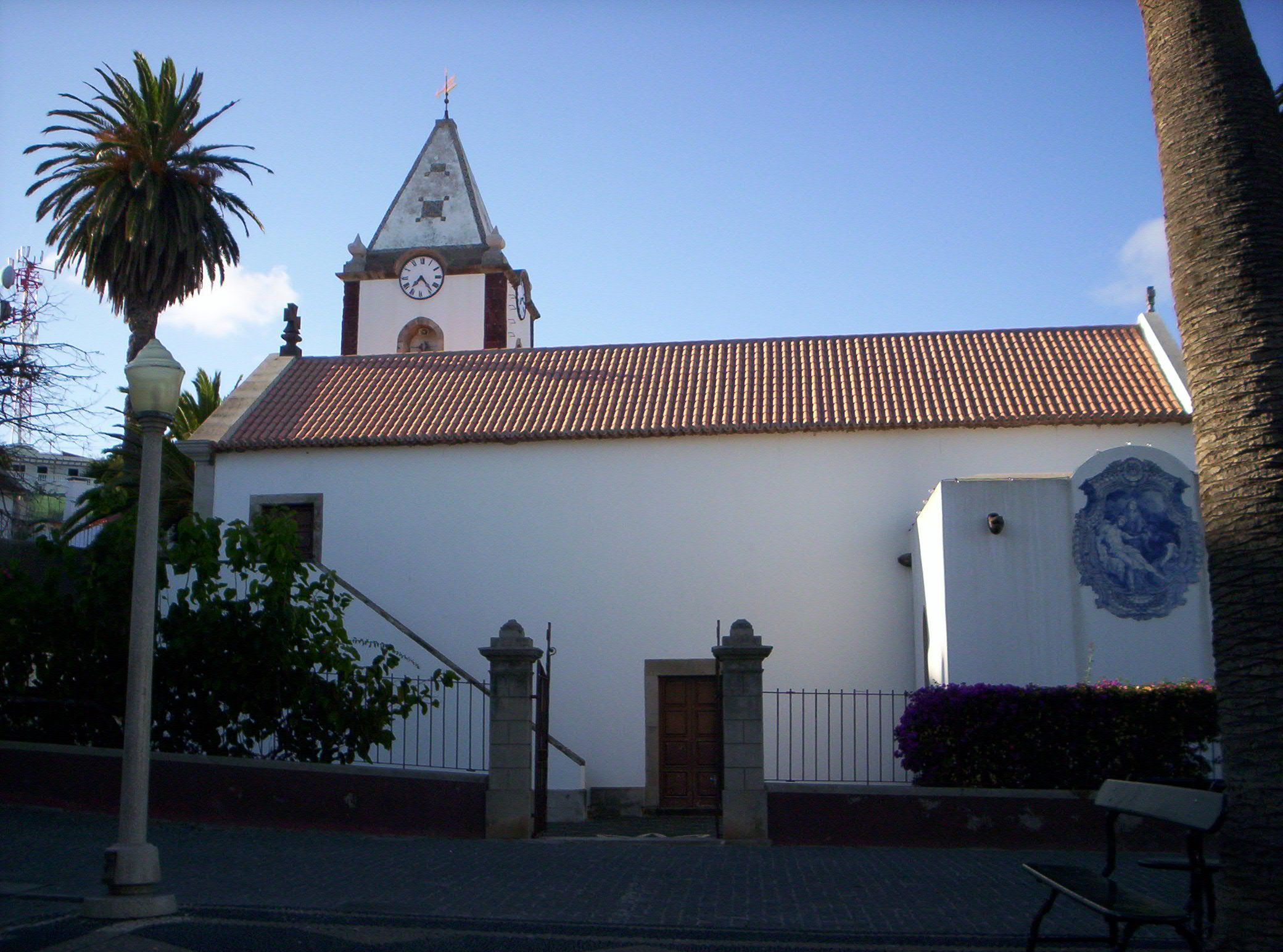 Church of Vila Baleira, Porto Santo island, Portugal.